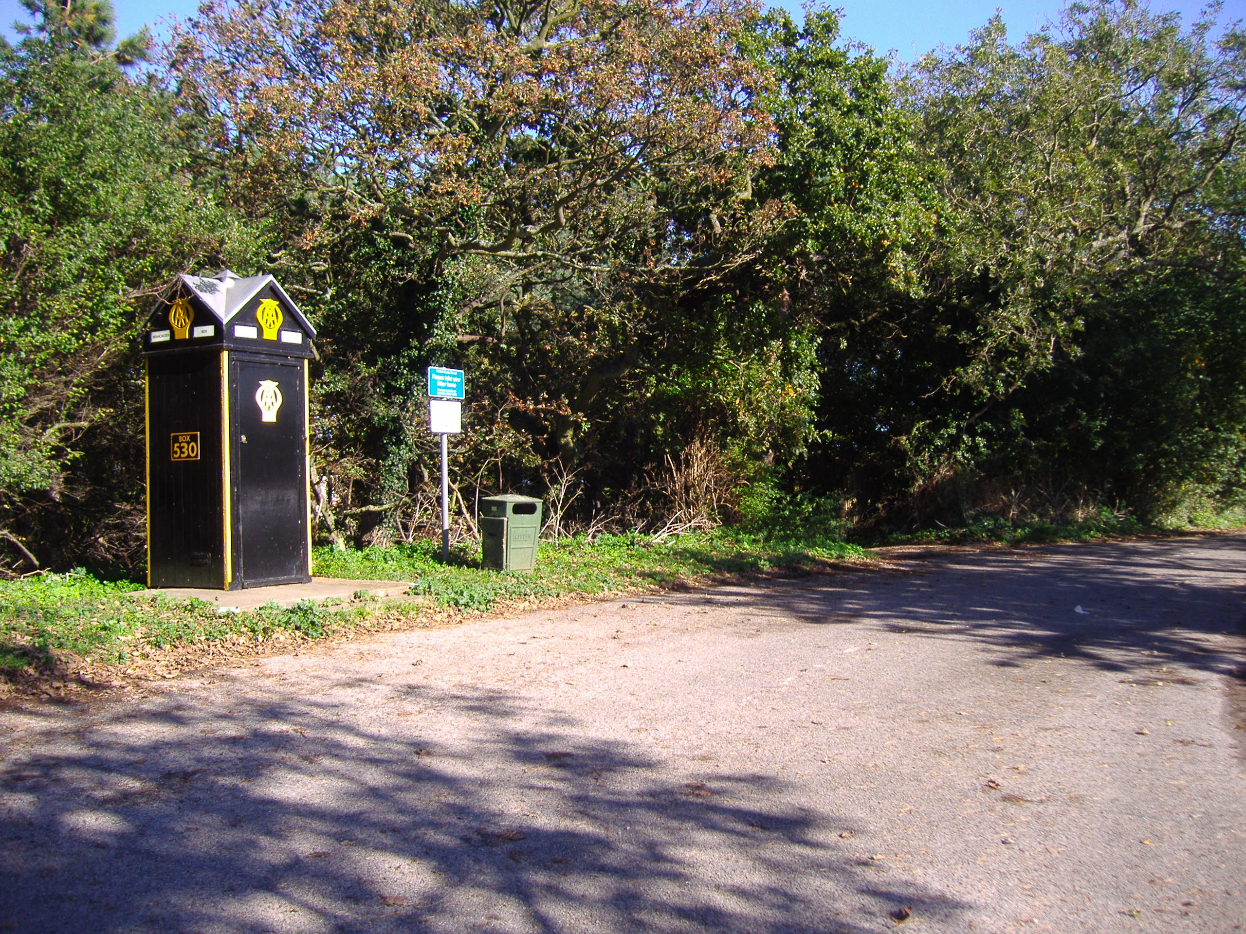 A Digital Photograph of the listed AA Box at Brancaster 17th October 2007 taken by stavros1